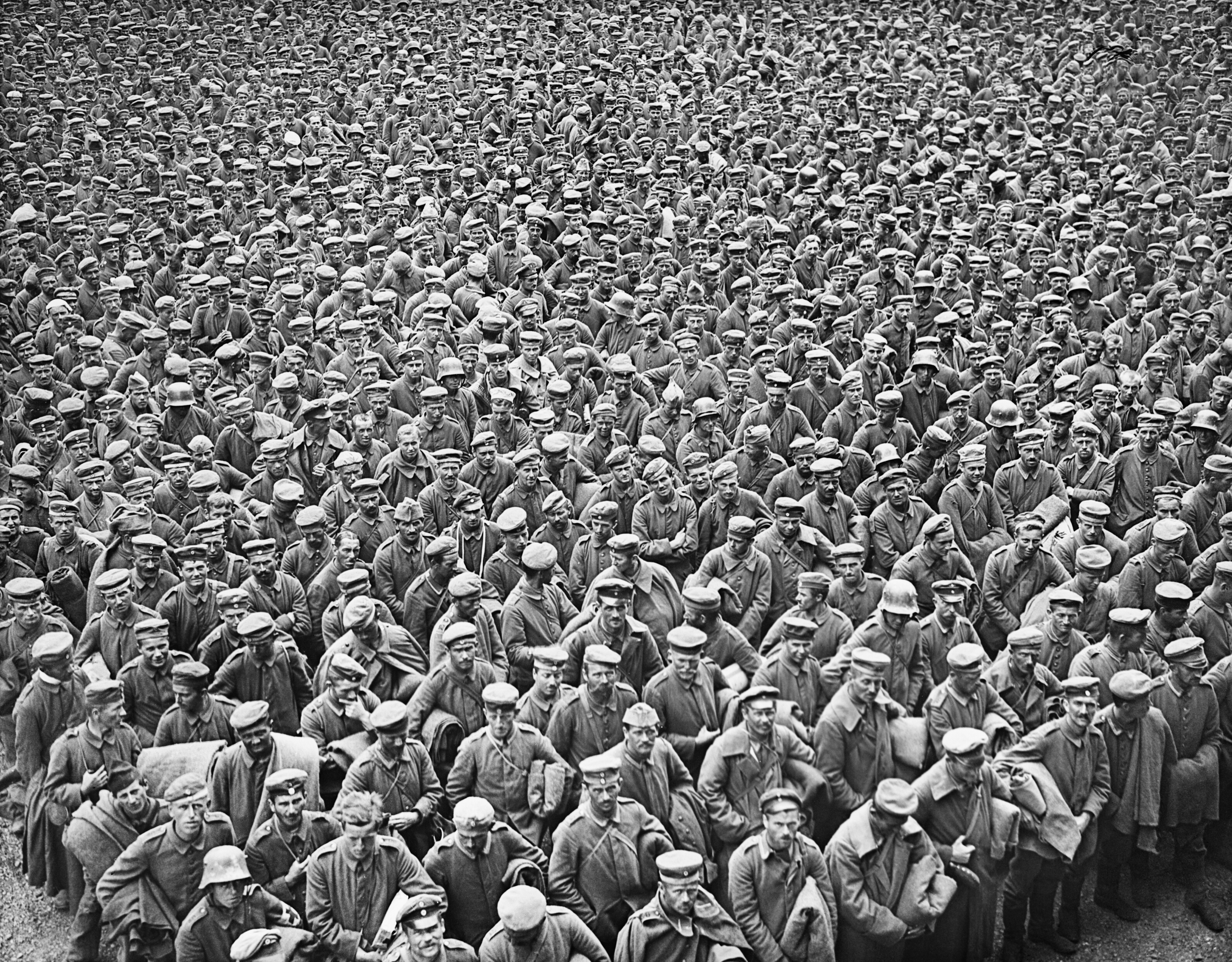 The Hundred Days Offensive, August-november 1918 A crowd of German prisoners taken by the British Fourth Army in the Battle of Amiens. Near Abbeville, 27 August 1918.